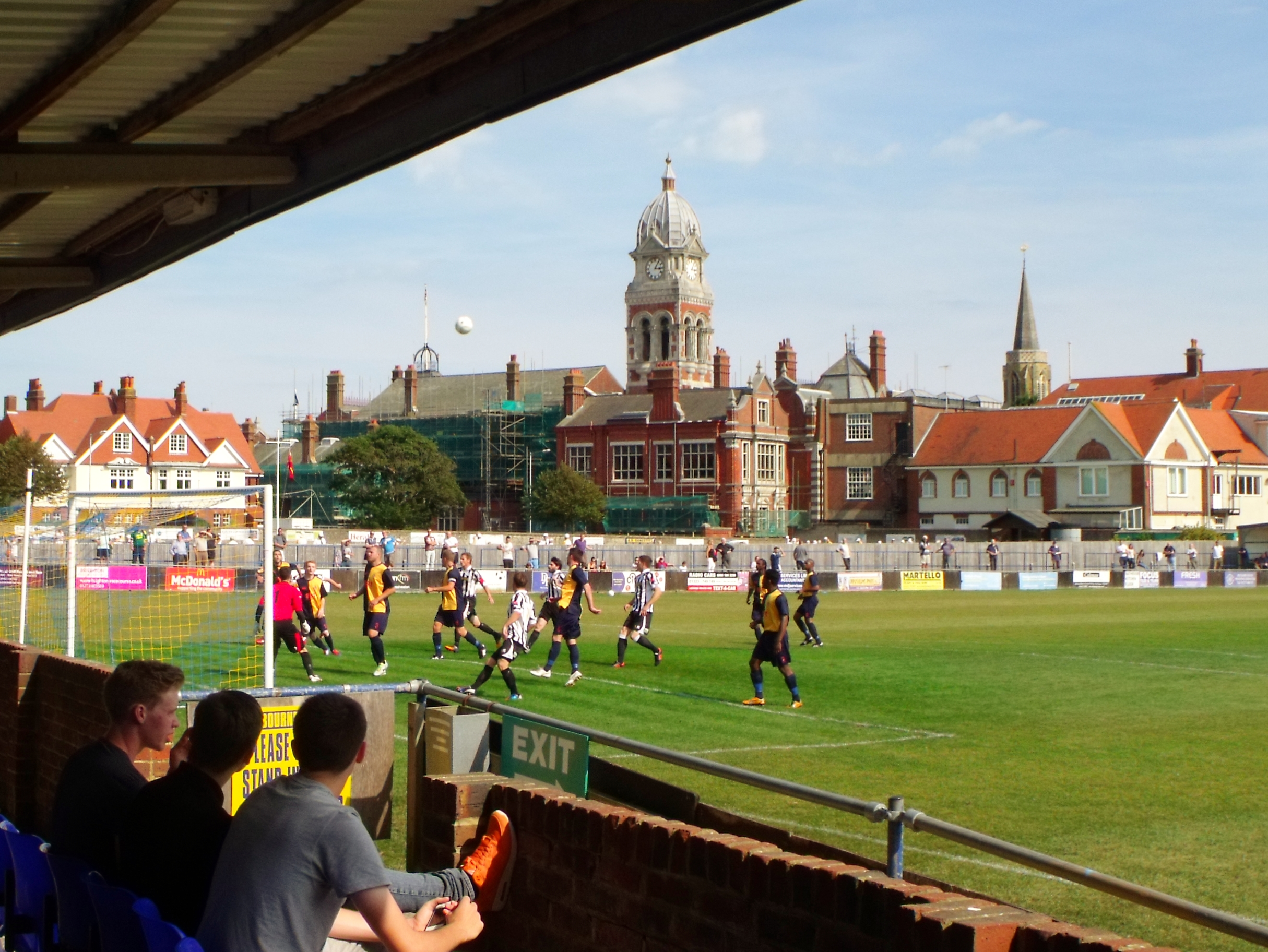 The home team, restructuring after the loss of their manager, suffered another defeat by two goals to nil.